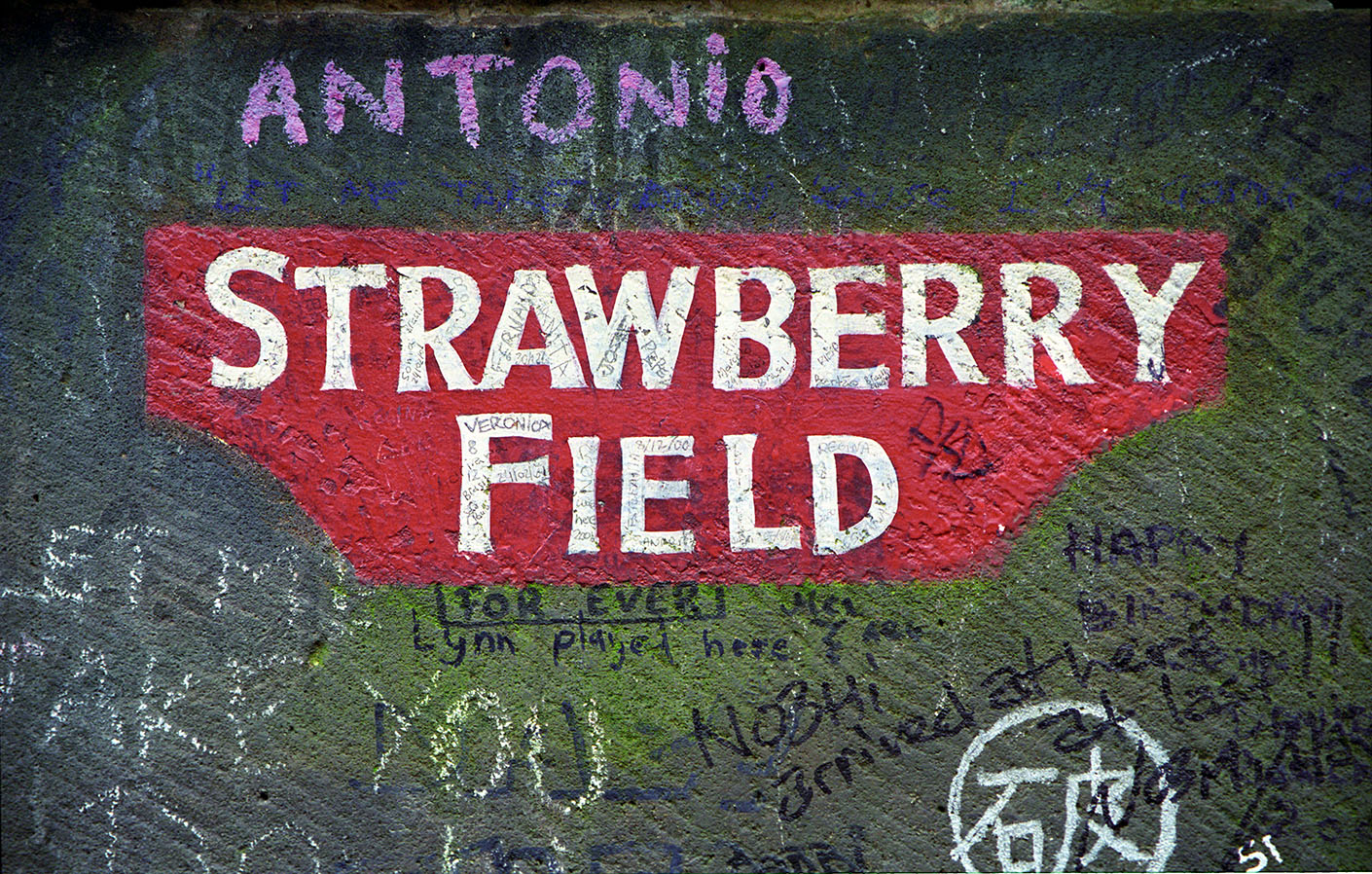 Close up of the fan graffiti